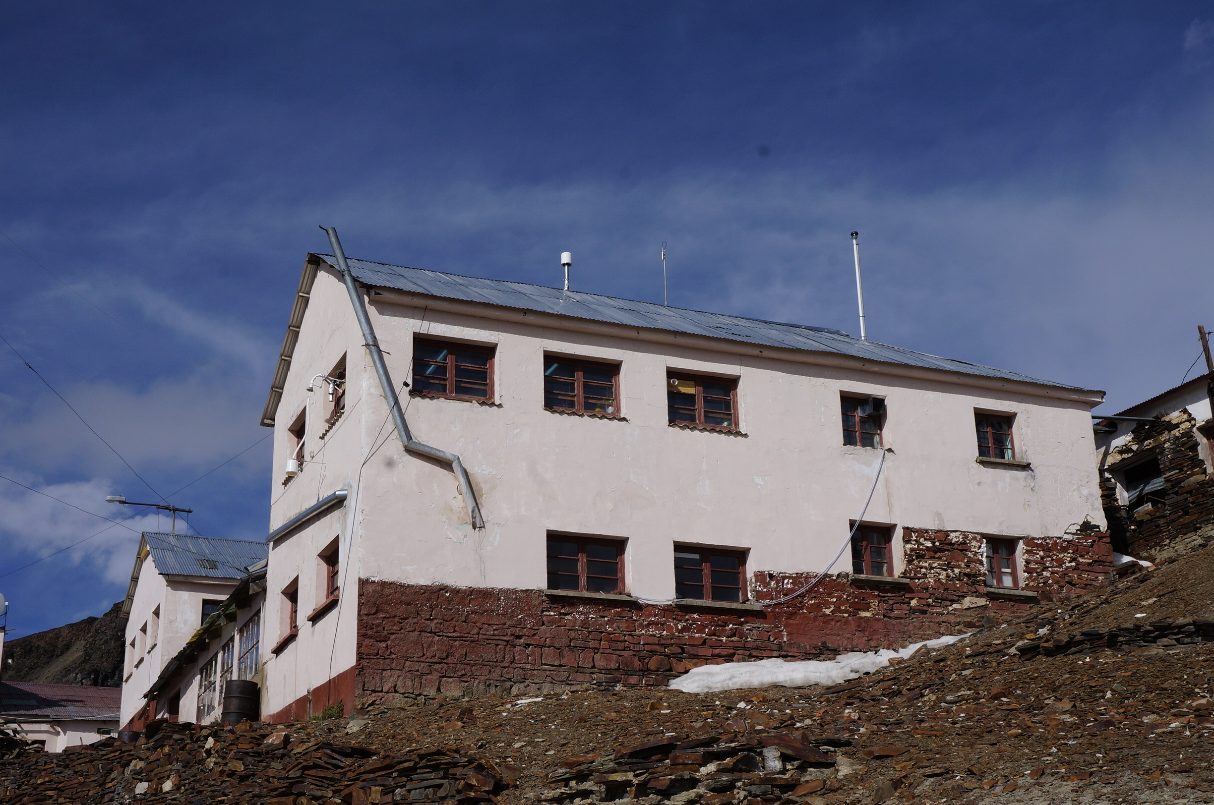 View of the main building of the Chacaltaya GAW station. The inlets for sampling aeorosols and gases are visible on the top of the roof.